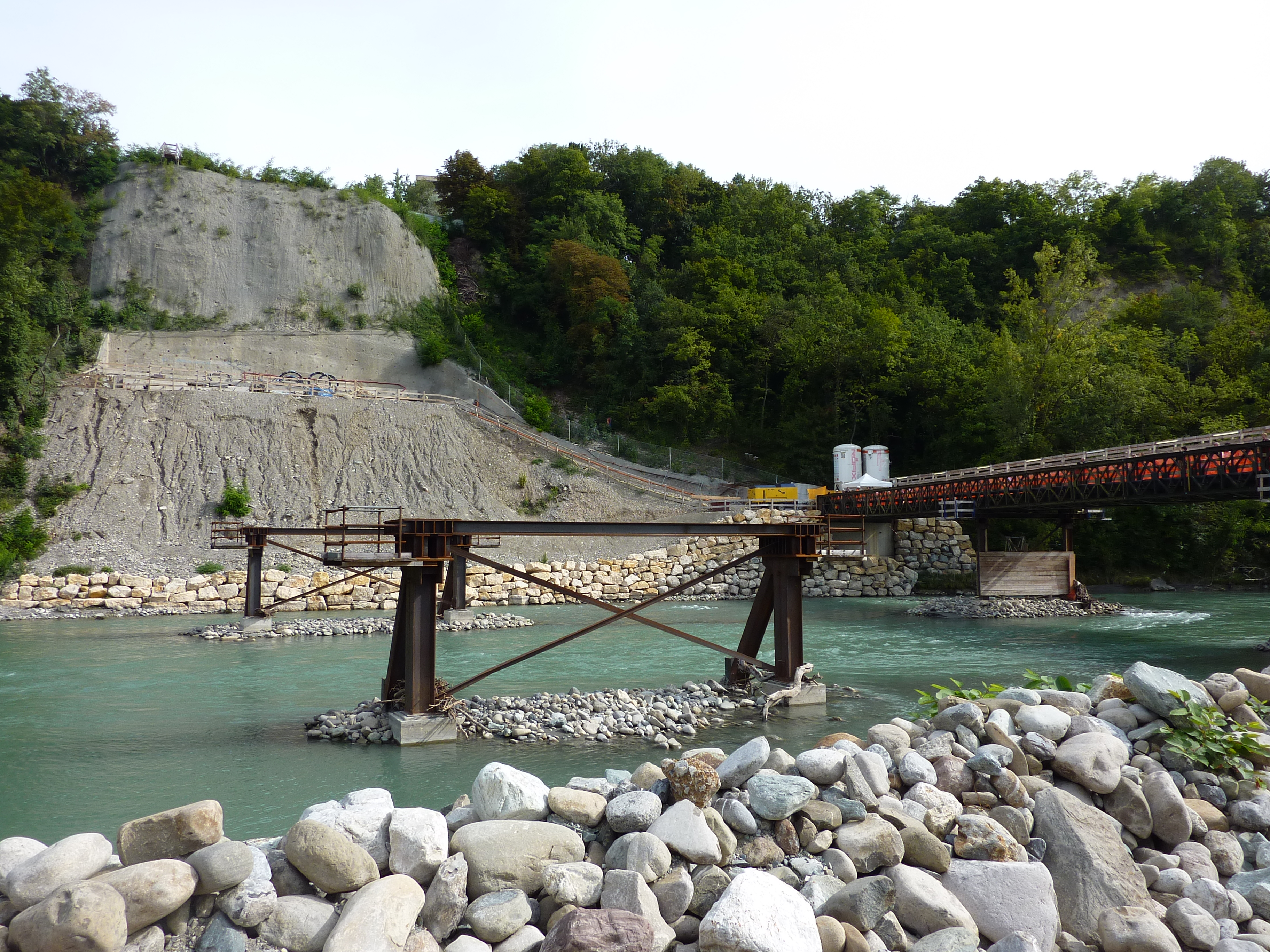 Work related to CEVA at Val d'Arve location. Object location46° 11′ 09.21″ N, 6° 09′ 15.39″ E